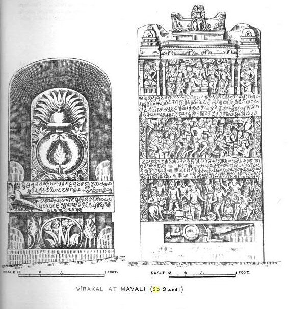 Mavali is a village in Soraba Taluq of Shimoga district in the Karnataka state, India. Ref: List of inscriptions in Chronological order (pages 1-8); Part II, Text of inscriptions in Roman characters, inscriptions Sb.1 and Sb. 9 - page 1, 3; Translation of inscriptions Sb. 1, 9 on pages 1, 2